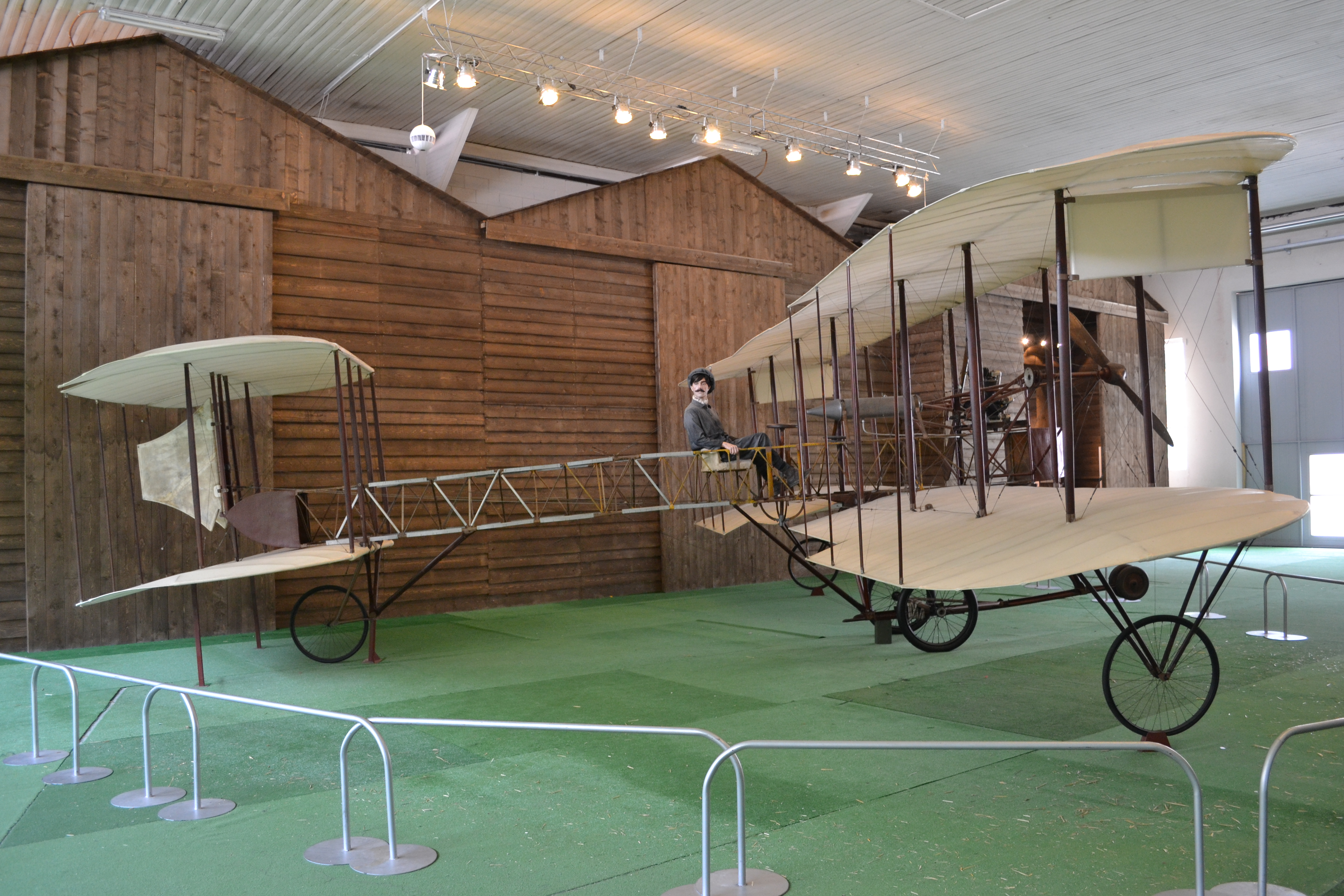 The Caproni Ca.1 Italian pioneer biplane, on display at the Volandia aviation museum in the province of Varese.